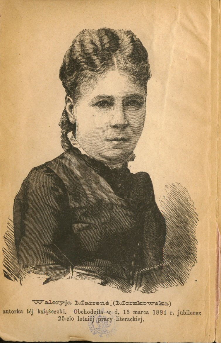 short story; picture probably created about 1870